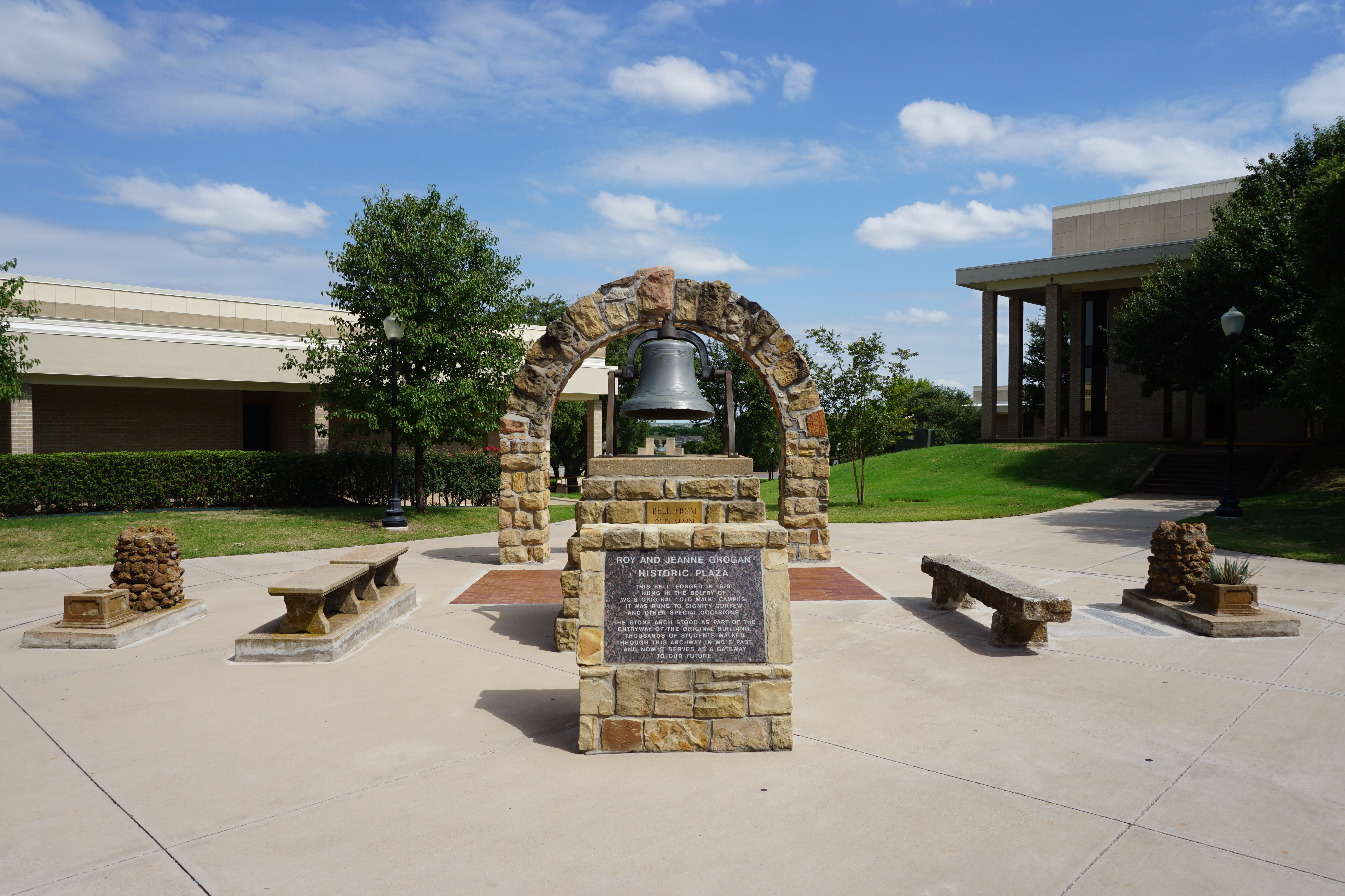 Roy and Jeanne Grogan Historic Plaza on the campus of Weatherford College in Weatherford, Texas (United States).